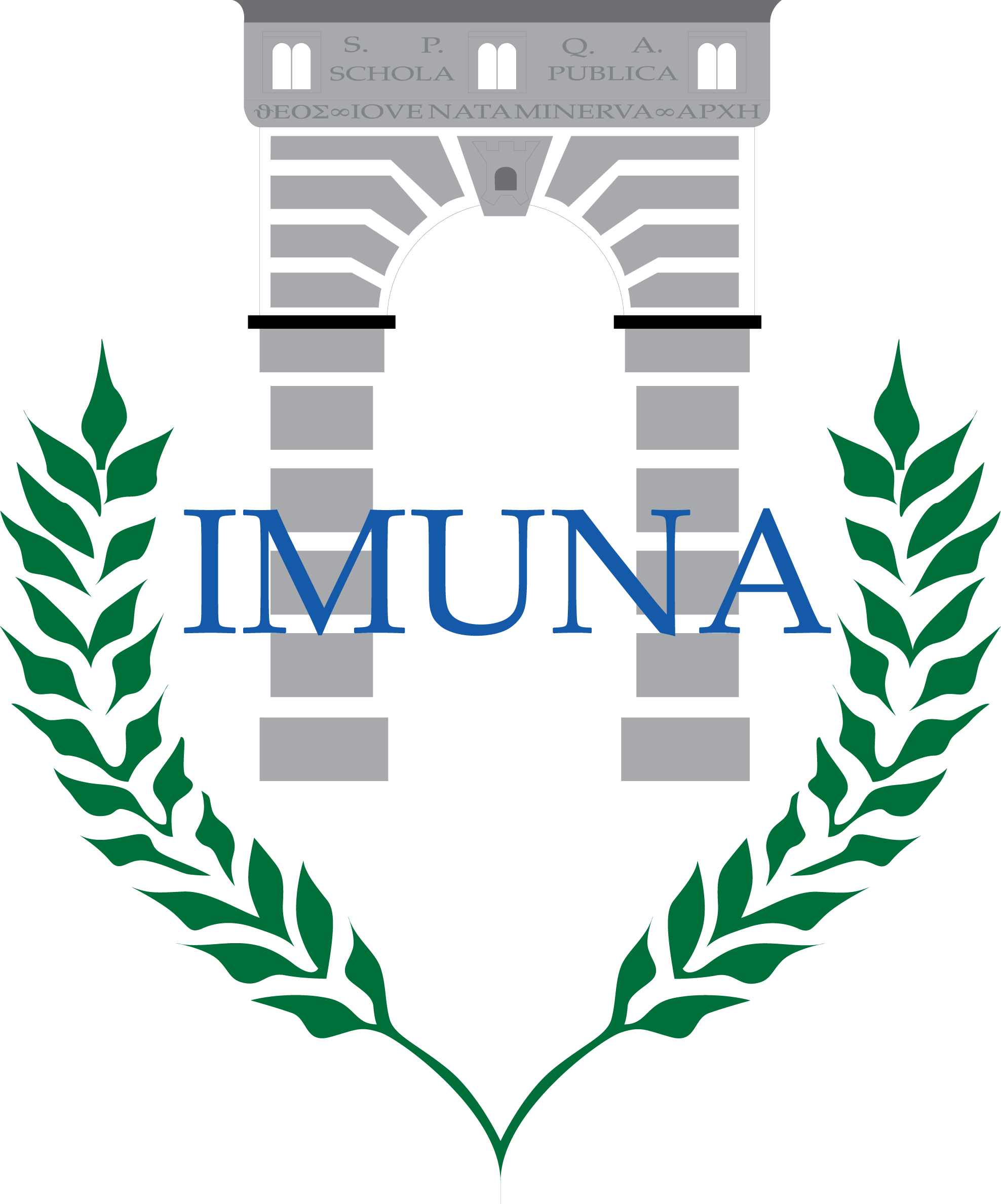 The logo of the International Model United Nations of Alkmaar